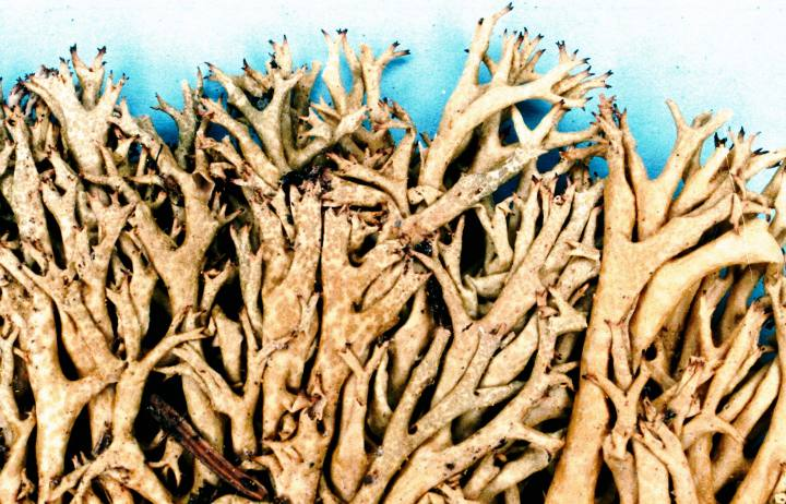 Cladonia boryi Tuck. (photograph of a herbarium specimen) Growing on thin soil over granite outcrops in mixed forest at Blackwoods Camping Area, Mount Desert Island, Acadia National Park, Hancock County, Maine, USA; collected and identified by A. Norden and B. Norden (No. 662, 4 Jun 1974); specimen is now in the Lichen Herbarium of the New York Botanical Garden.